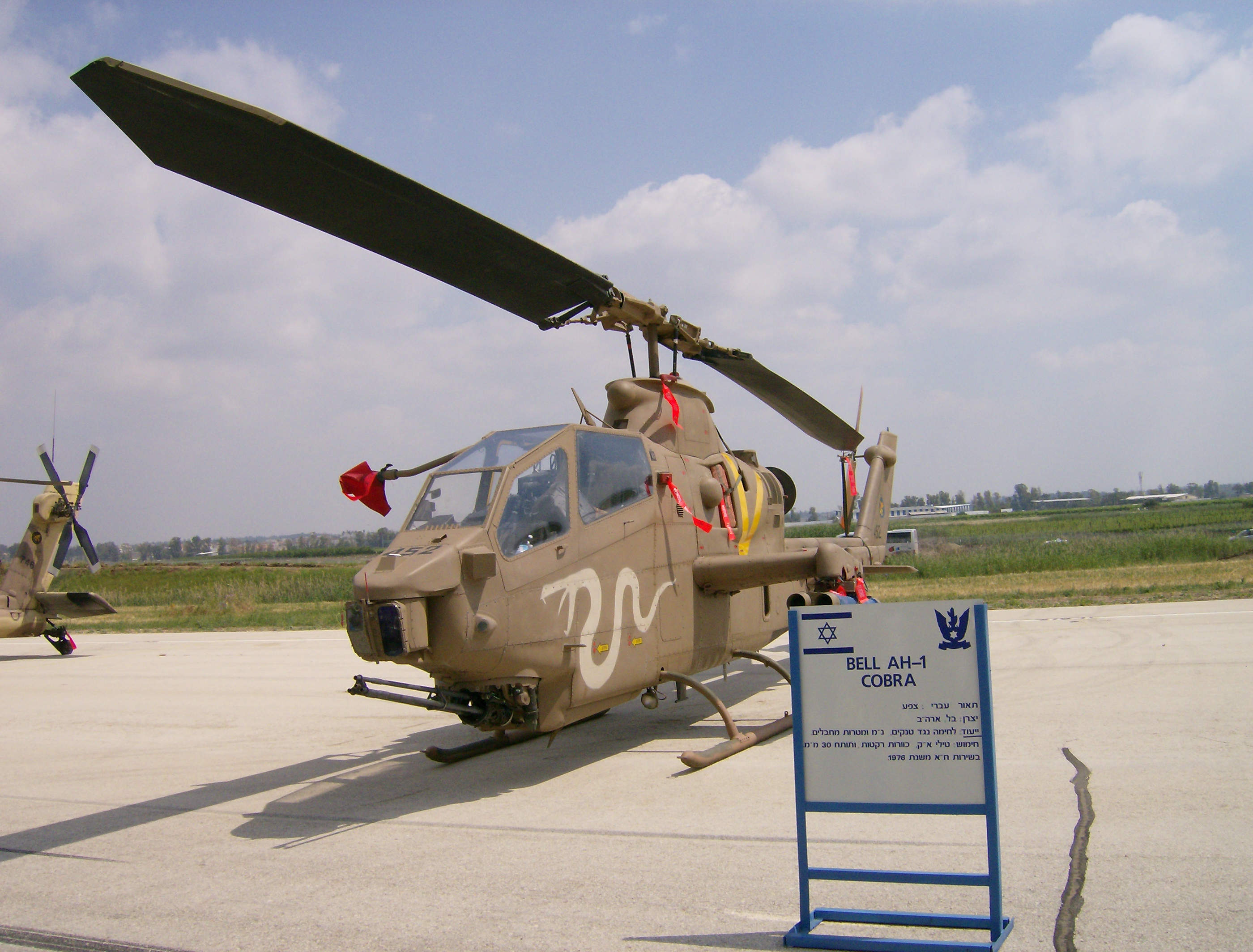 AH-1 Cobra, IAF, Tel Nof, Israel